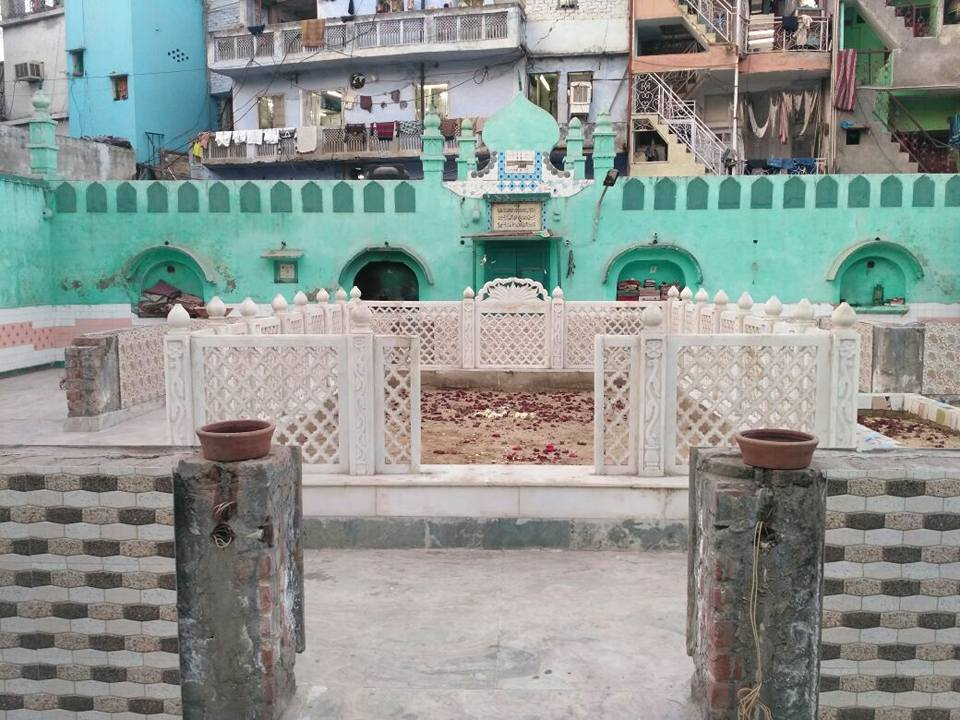 Hazrat Syed Hassan Rasool Numai